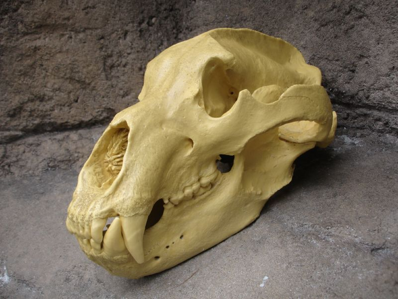 Grizzly bear skull